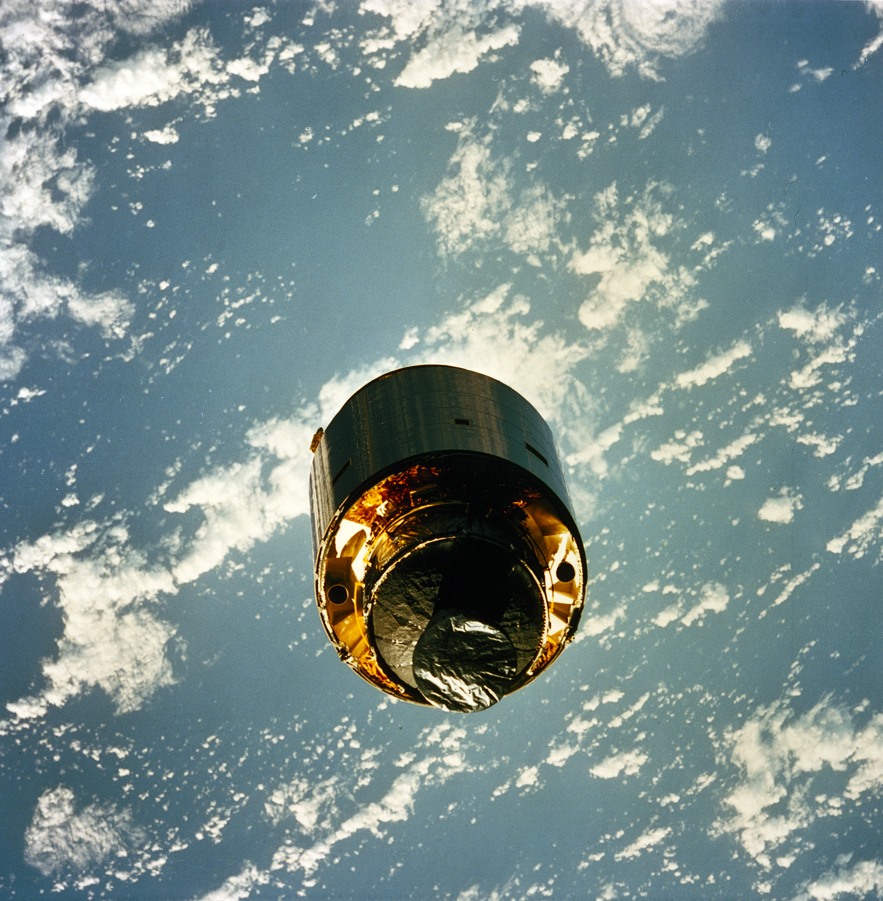 STS-49, the first flight of the Space Shuttle Orbiter Endeavour, lifted off from launch pad 39B on May 7, 1992 at 6:40 pm CDT. The STS-49 mission was the first U.S. orbital flight to feature 4 extravehicular activities (EVAs), and the first flight to involve 3 crew members working simultaneously outside of the spacecraft. The primary objective was the capture and redeployment of the INTELSAT VI (F-3), a communication satellite for the International Telecommunication Satellite organization, which was stranded in an unusable orbit since its launch aboard the Titan rocket in March 1990. The 4.5 ton satellite was successfully snared by three astronauts on a third EVA. The three hand-grabbed the errant satellite, pulled it into the cargo bay, and attached a boost-given perigee stage before its release. In this photo, the satellite spins slowly out of cargo bay to begin its “new lift”.